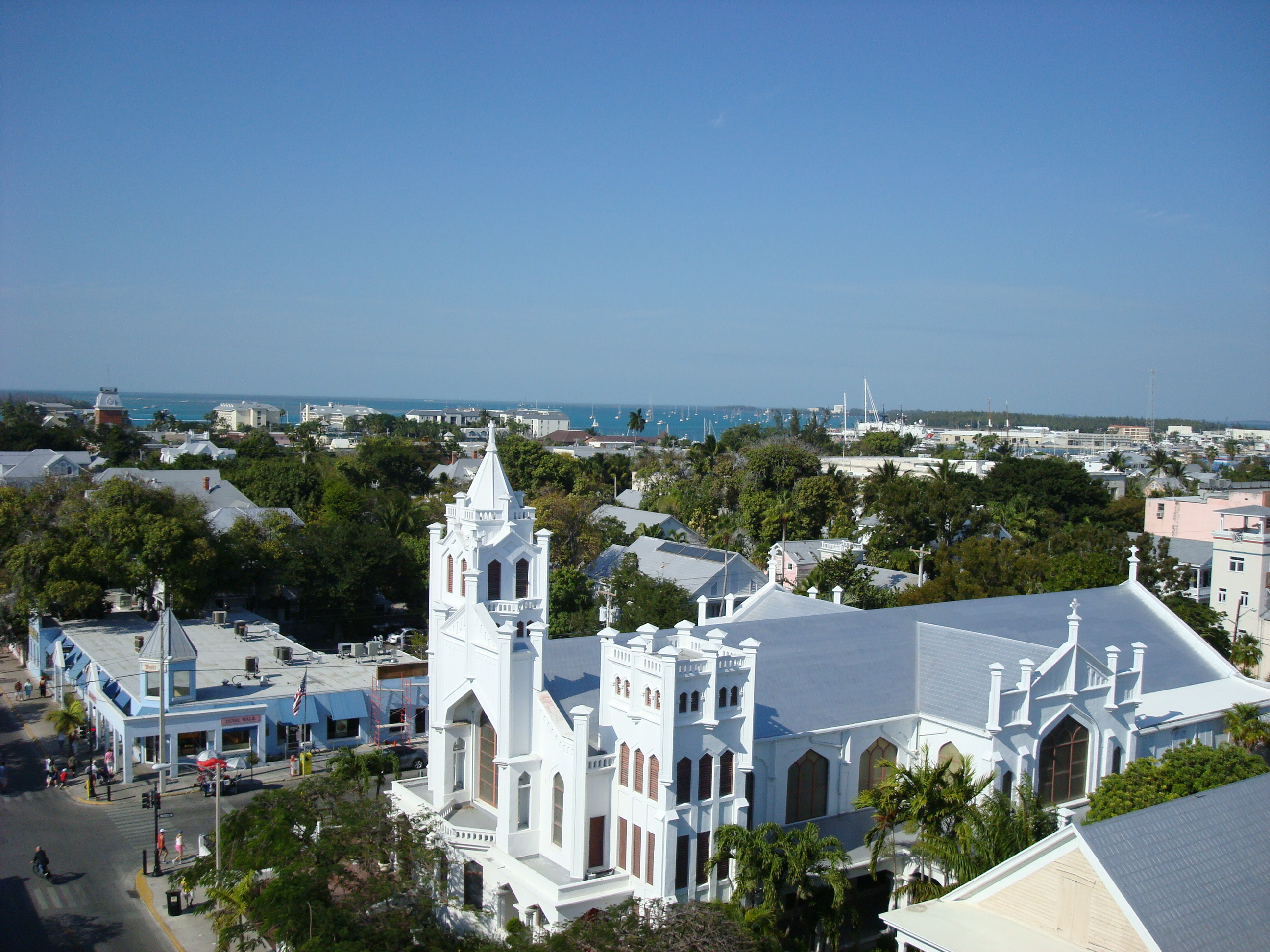 St Paul's Episcopal Church from the LaConcha Hotel